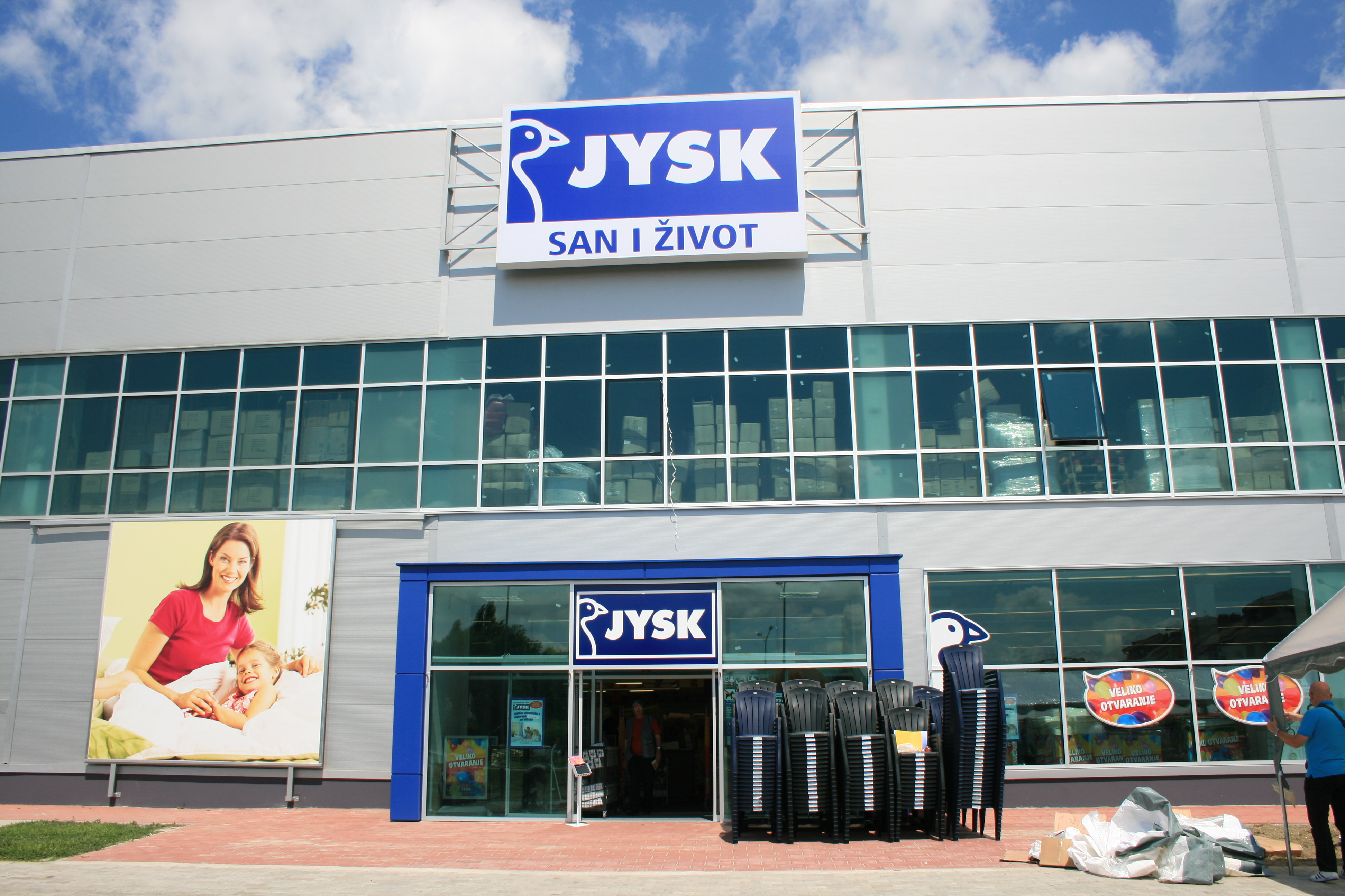 JYSK in Serbia